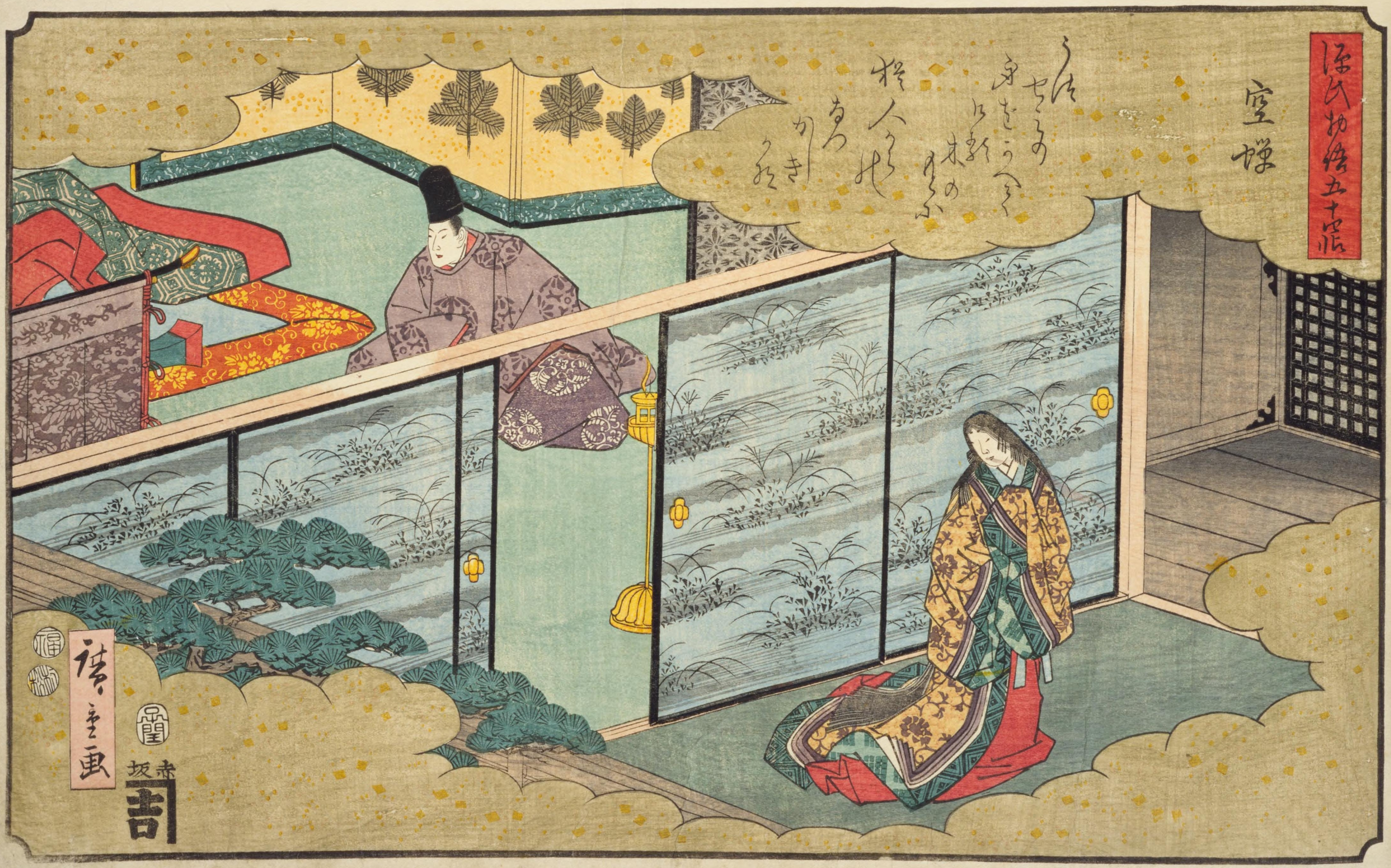 Utsusemi from the series: "Tale of Genji in Fifty-four Chapters"